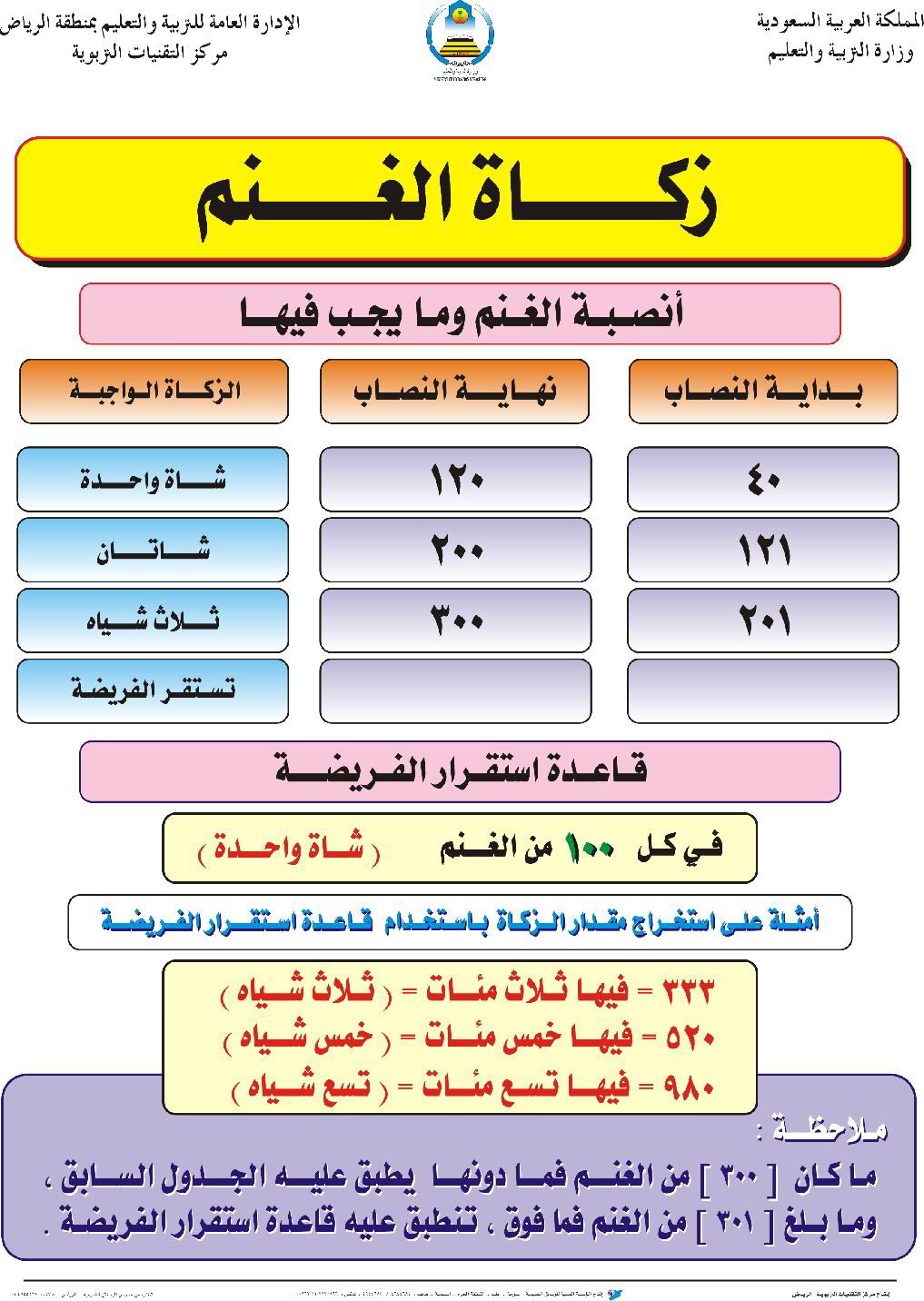 Zakat in Islam - Zakat sheep